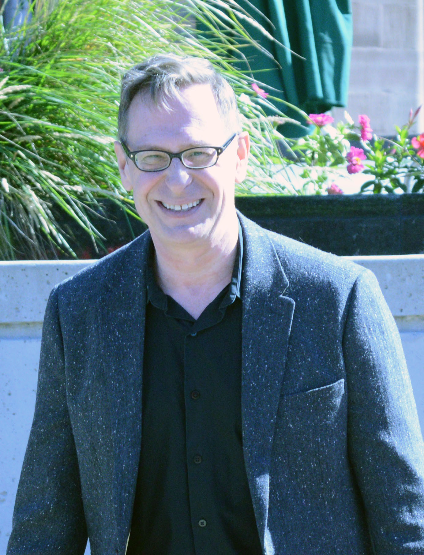 Brampton-raised comedian Scott Thompson, moments after unveiling his star at the Brampton Arts Walk of Fame.